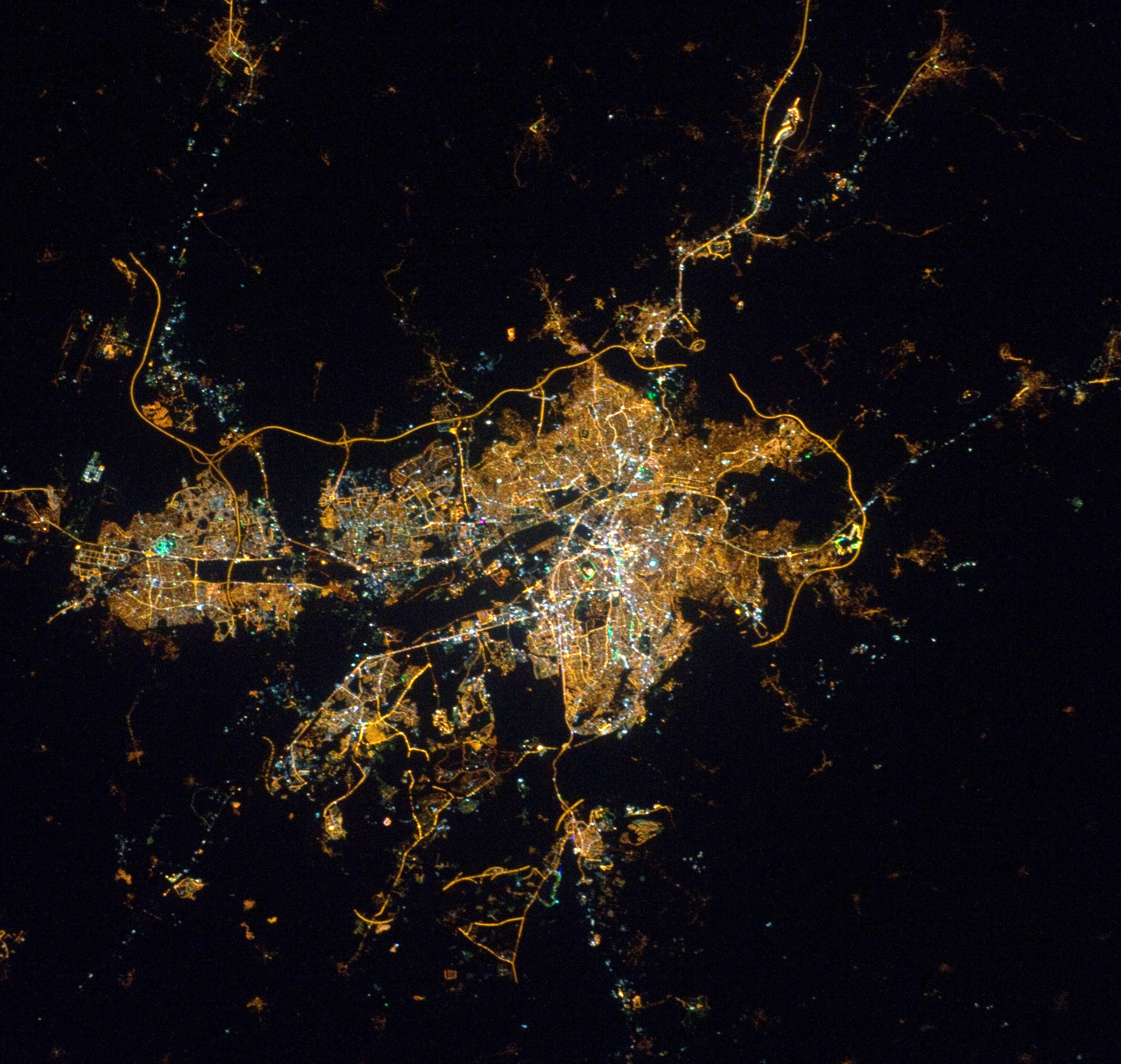 Ankara metropolitan area at night